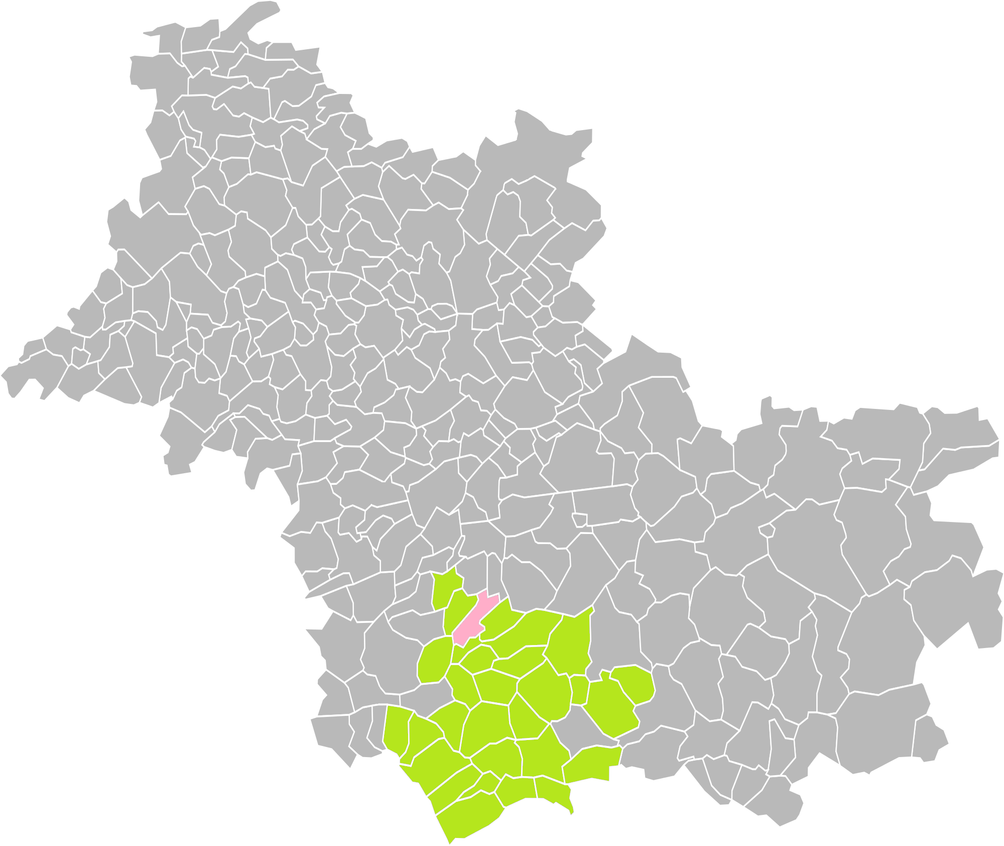 Location of the commune of Feings in the Communauté de communes Val de Cher - Controis (Loir-et-Cher)